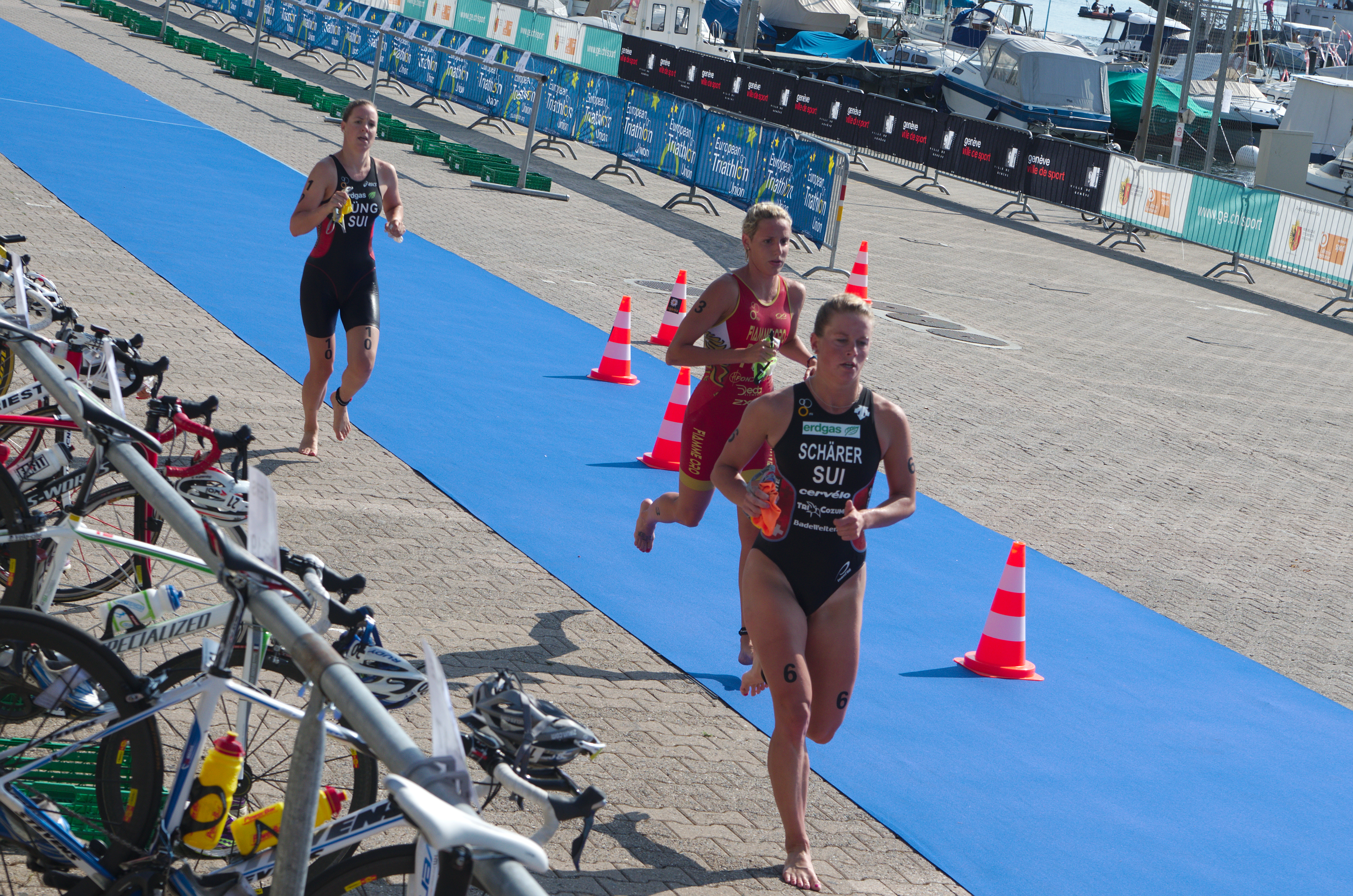 Triathlon Genève 2013 - 21/07/2013 - ITU Triathlon European Cup Women - Transition